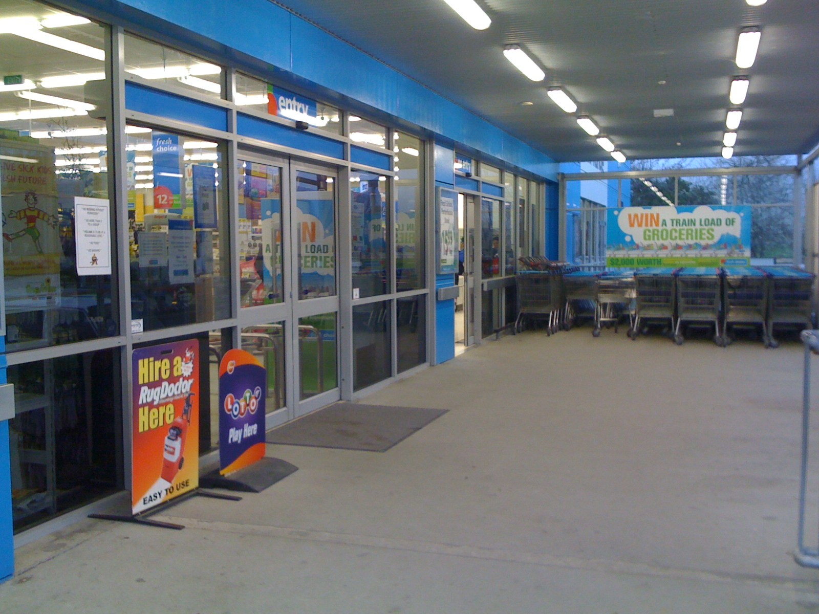 Front entrance to Fresh Choice Supermarket in Takaka.